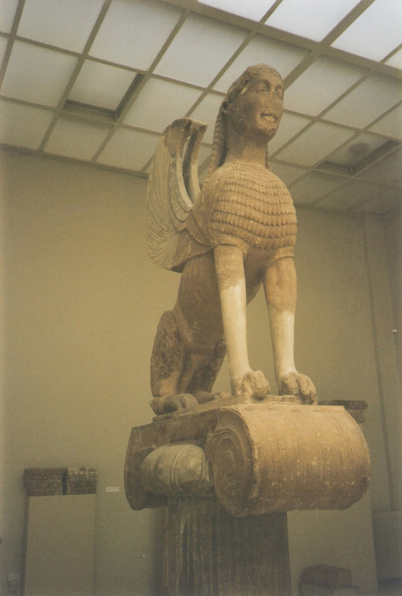 the winged sphinx of naxos in delphi museum, greece